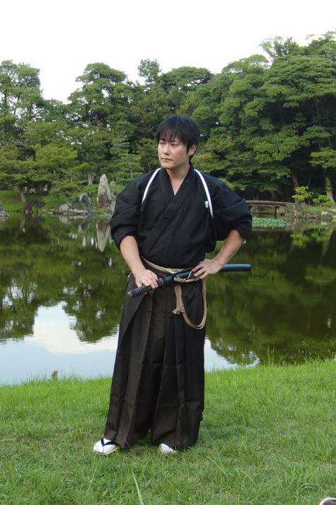 Isao Machii with Katana